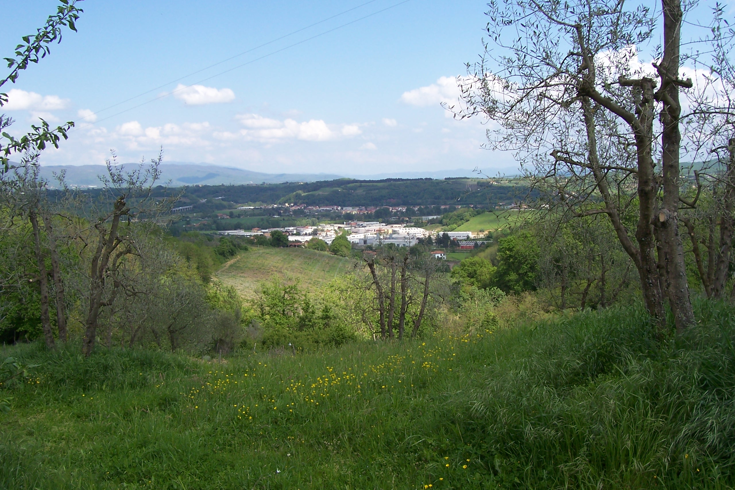 The industrial district of Levanella